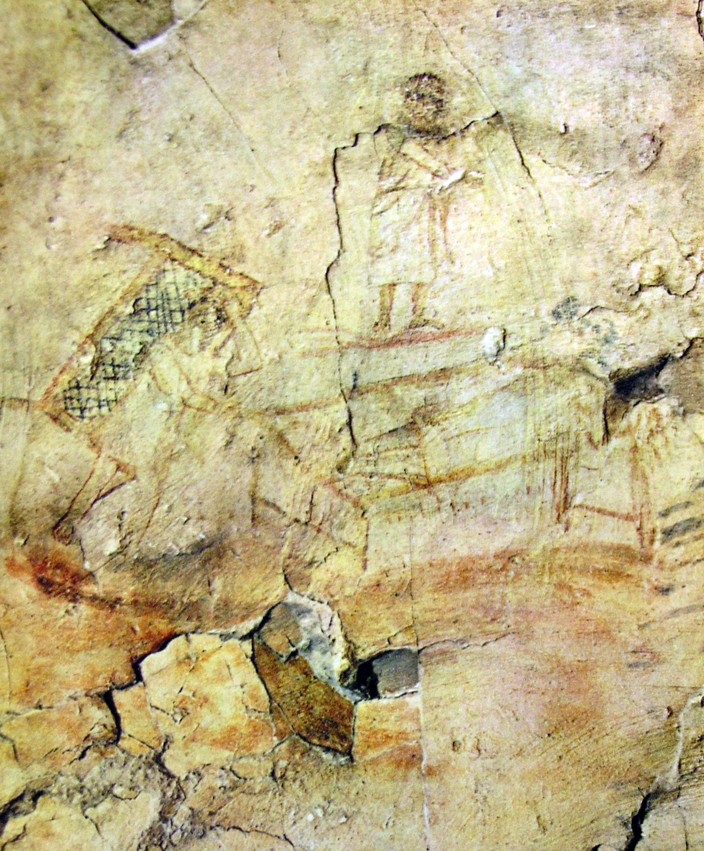 Healing of the paralytic. Wall painting in the baptistry of the Domus ecclesiae in Dura Europos.